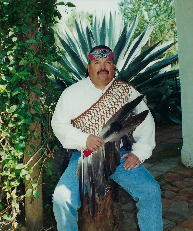 Chief David Belardes